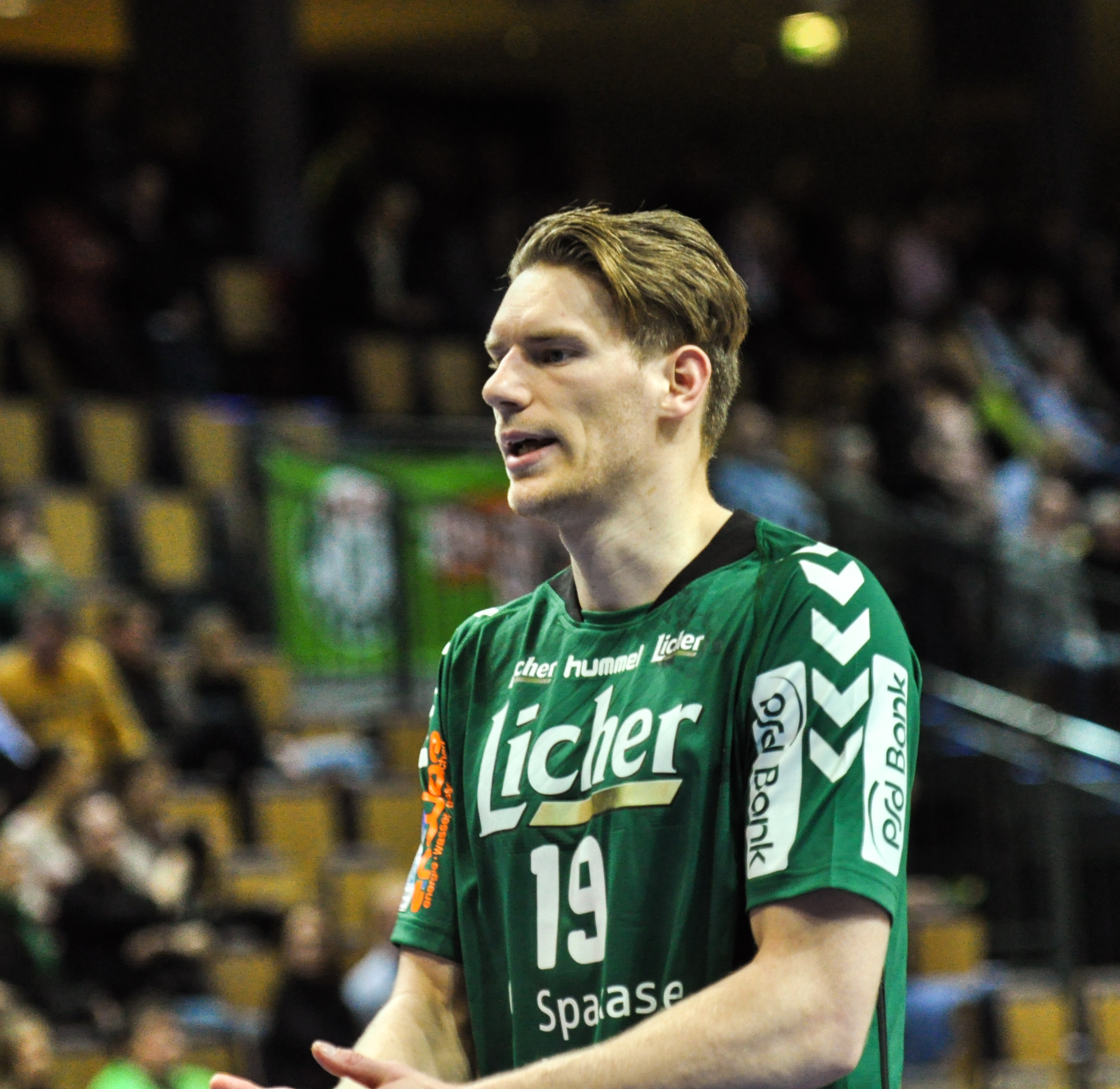 taken on February 8, 2014 during DKB Handball-Bundesliga match between HSG Wetzlar and HSV Hamburg